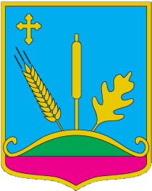 Coats of arms of Trostyanetskij district (Ukraine)